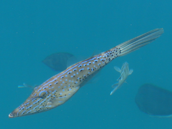 Aluterus scriptus, also known as leatherjacket or scribbled filefish